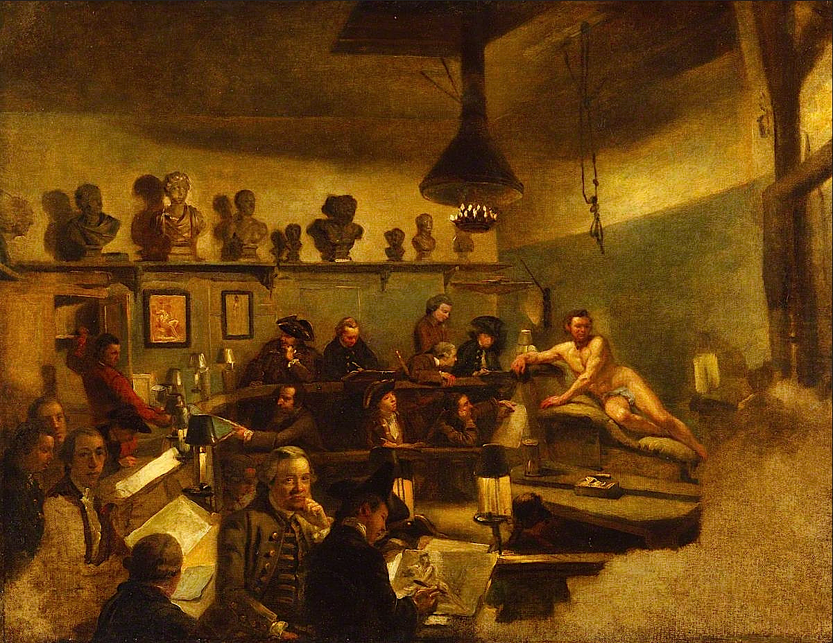 A Life Class at St Martin's Lane Academy, oil on canvas by Johann Zoffany, uncompleted. Dim. : 50.5 x 66 cm.